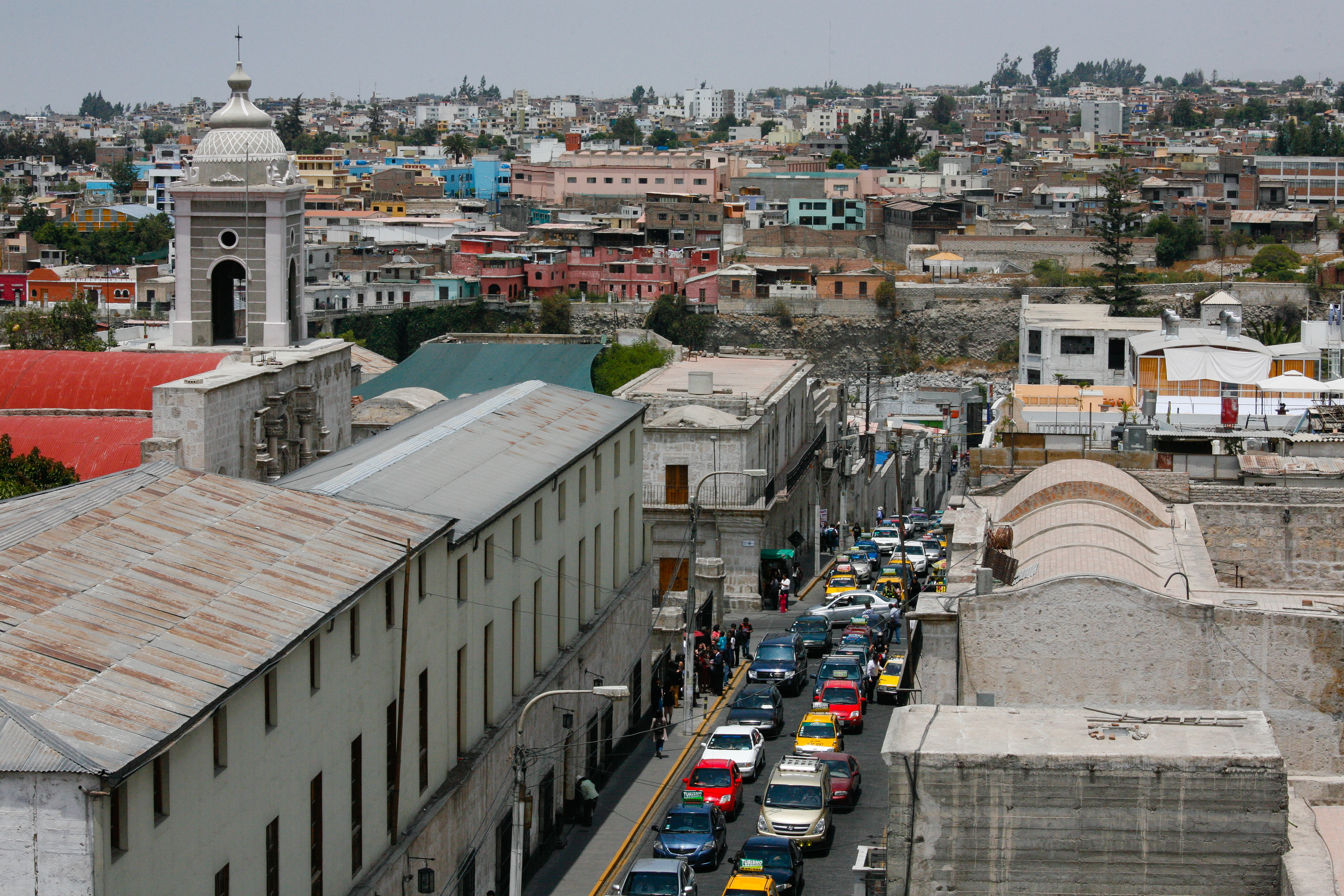 City of Arequipa